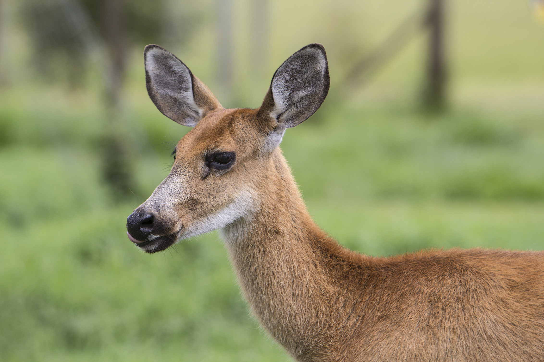 Close-up of a female marsh deer (Blastocerus dichotomus) in Itirapina, São Paulo state, Brazil.This surprisingly shy and secretive deer is actually the largest native deer species in South America. Marsh deer have large, primarily ornamental antlers, which are usually impressively forked, growing to about 60 centimetres in length and weighing, on average, about two kilograms. They are shed irregularly and may be retained for up to two years. Marsh deer also have well-developed hindquarters, making them good at jumping, which is the fastest way to move in water.The marsh deer has a shaggy, reddish chestnut coloured coat, with paler undersides of the neck and belly. The muzzle and lips are black, as are the lower legs. The eye is surrounded by a faint white ring and the large ears are lined with white hair. Marsh deer have long, broad hooves that are particularly adapted to the marshy environment, as they are joined by a special membrane and can spread out, giving the hooves a greater surface area, to prevent the deer from sinking into swampy ground.